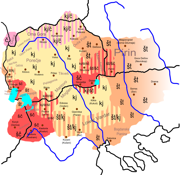 Map showing the distribution of the Macedonian language